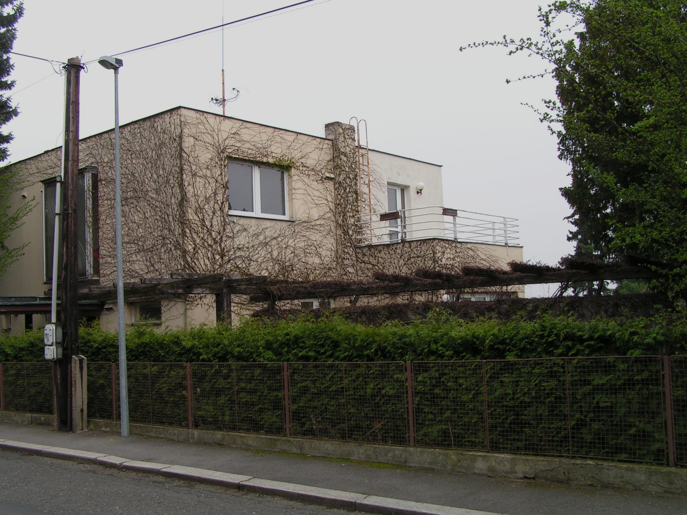 Ladislav Machoň: Villa of Ferdinand Špíšek (1933), view from the West, Prague 6 - Dejvice, Na Babě Street 1777/11